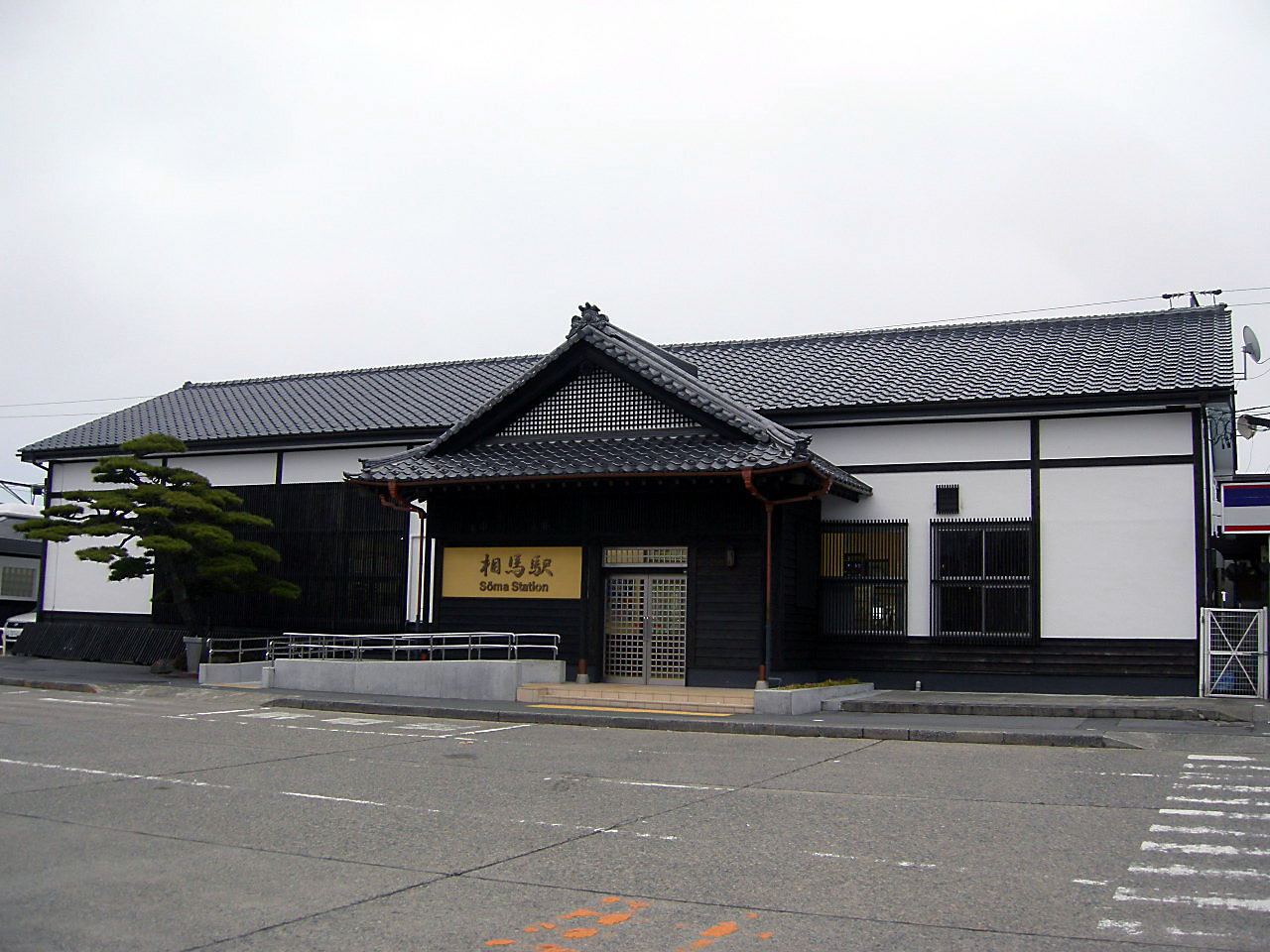 JR East Joban line,Soma Station(after renual）